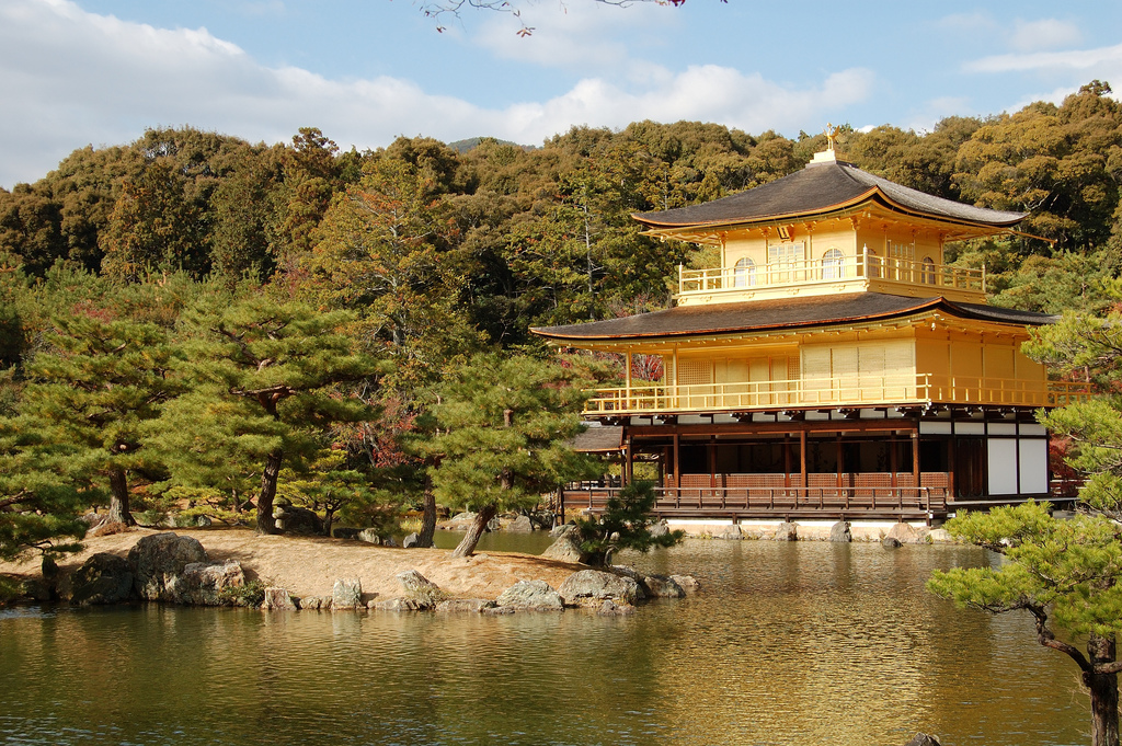 Golden Pavilion or Deer Garden Temple, Kyoto, Japan